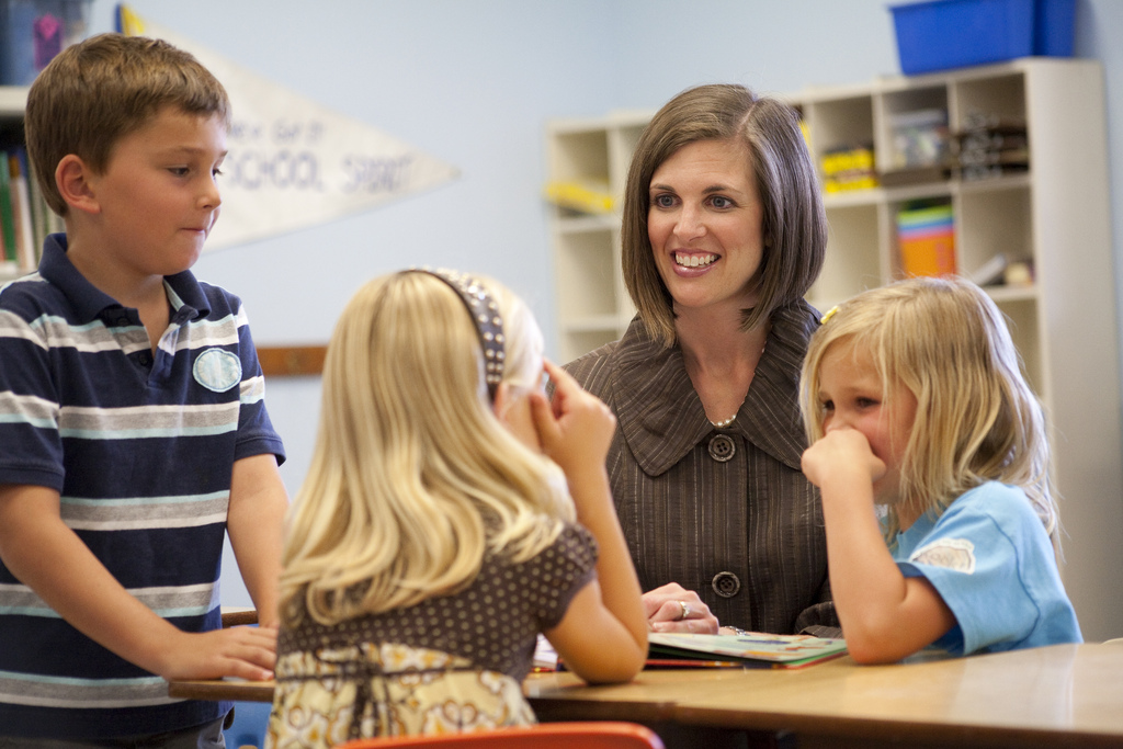 Assemblymember Kristin Olsen during a school visit